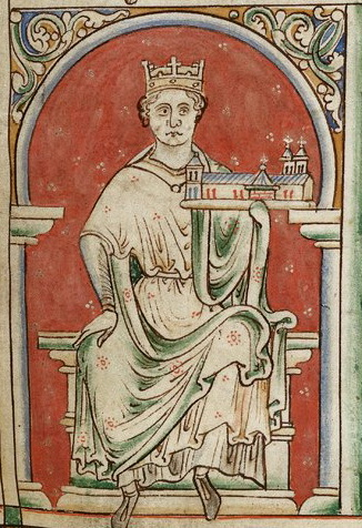 John with the Cistercian Abbey of Beaulieu(British Library, MS Royal 14 C VII f.9)